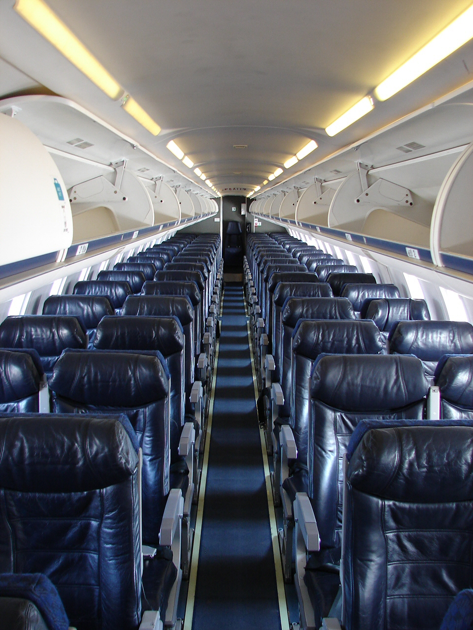 The Main Cabin aboard the CRJ-700 operated by American Eagle Airlines... many thanks to the hilarious and gracious crew!!